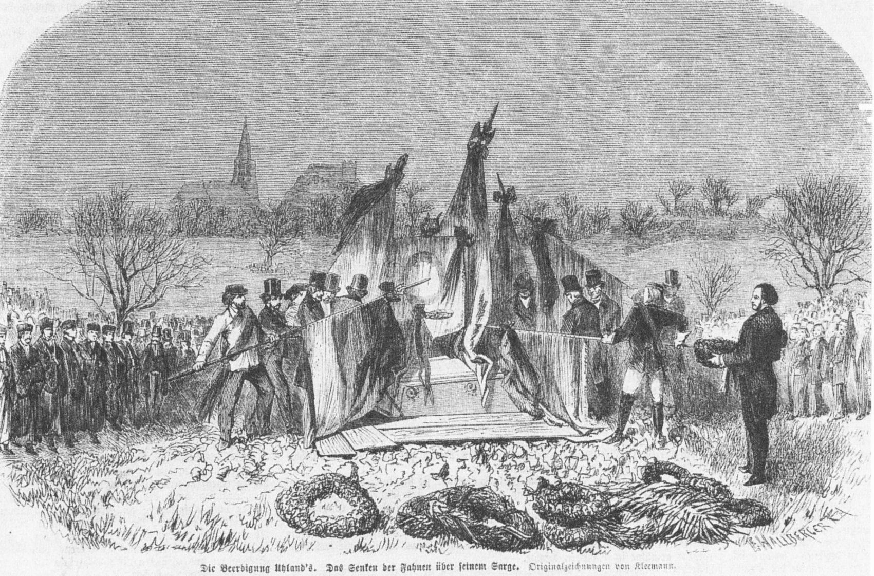 Ludwig Uhlands Funeral. Woodcut.